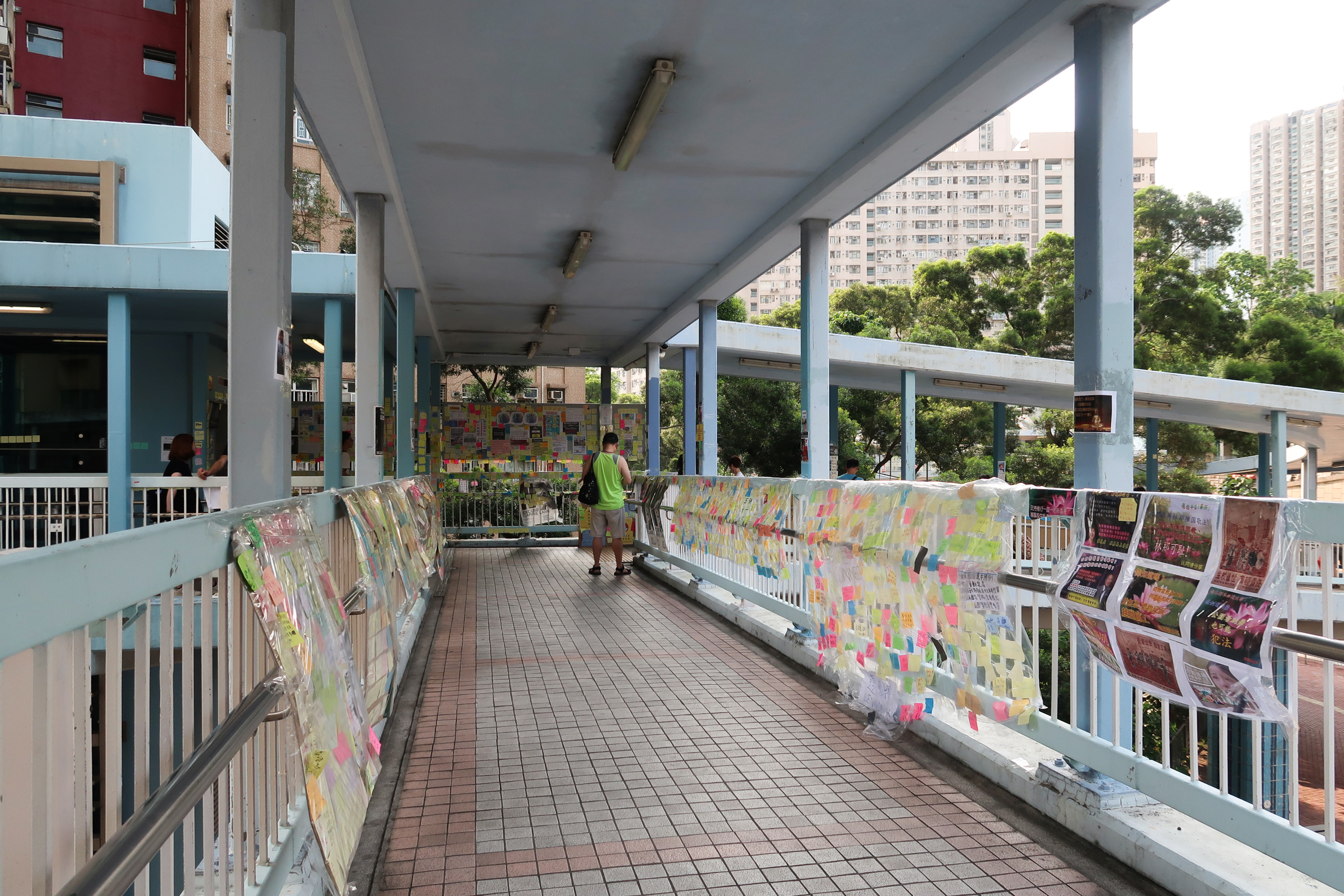 Diamond Hill Lung Poon Street Lennon Wall